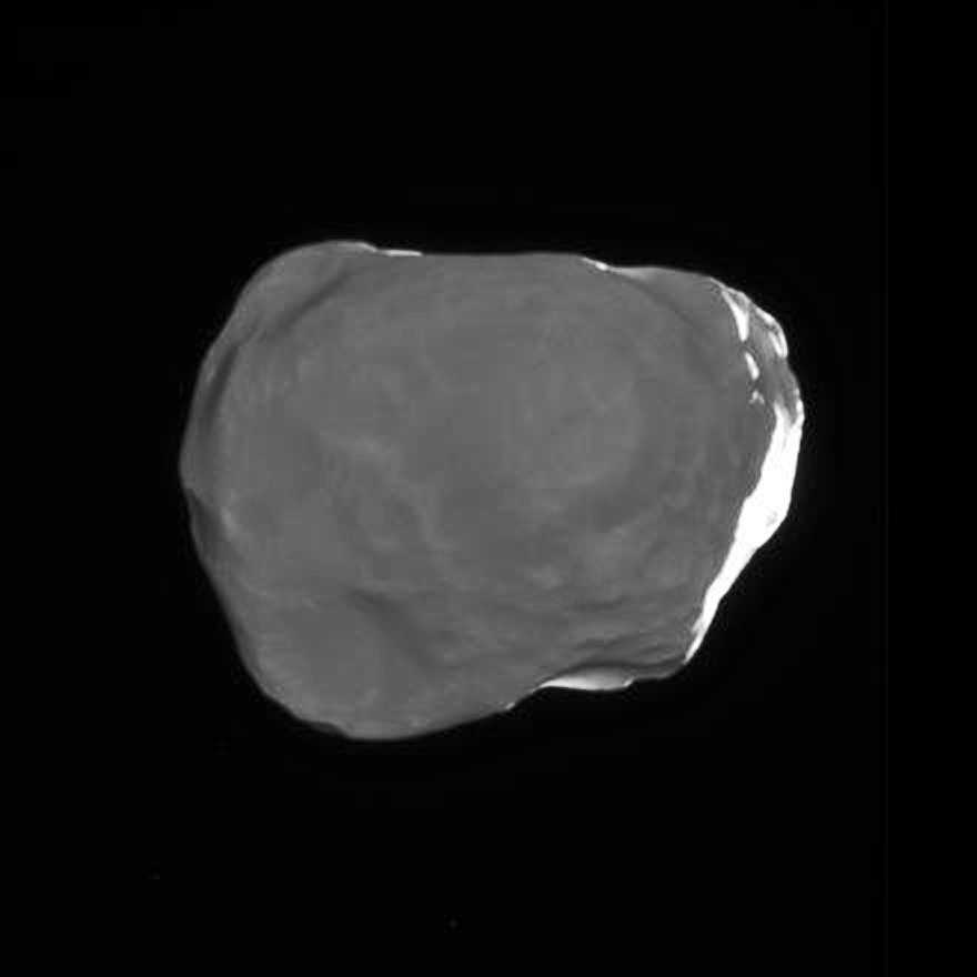 N00152209.jpg was taken by Cassini on March 03, 2010 and received on Earth March 03, 2010. The camera was pointing toward HELENE, and the image was taken using the CL1 and CL2 filters. This image has not been validated or calibrated. A validated/calibrated image will be archived with the NASA Planetary Data System in 2011. The original NASA image has been modified by cropping, centering the moon, doubling the linear pixel density, lightening shadows, increasing midtone contrast and removal of a dust artifact.